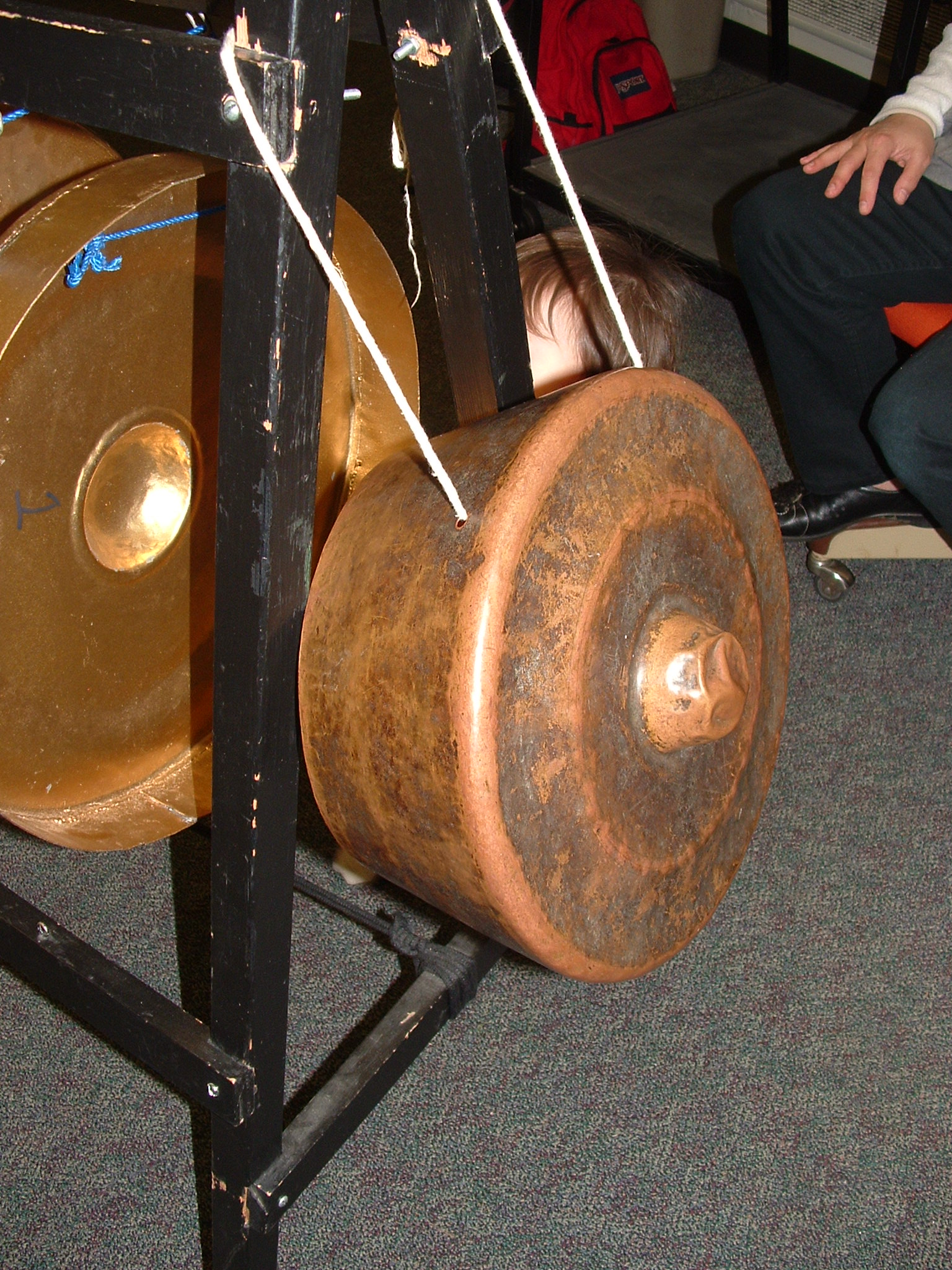 The singular Philippine handheld gong known as the babendil used as a "timepiece" in the kulintang ensemble.